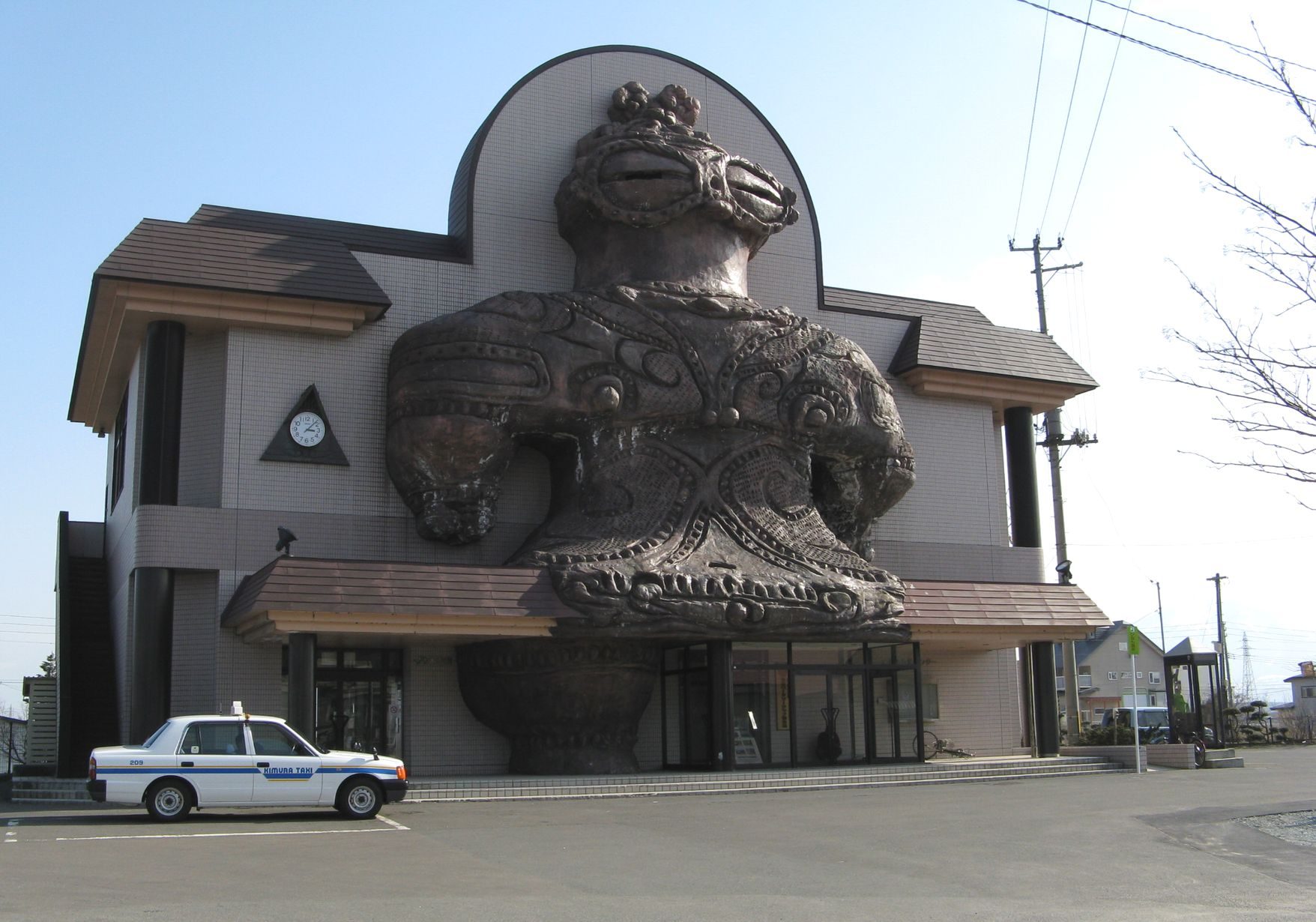 Kizukuri Station on the JR Gono Line in Tsugaru, Aomori Prefecture, Japan